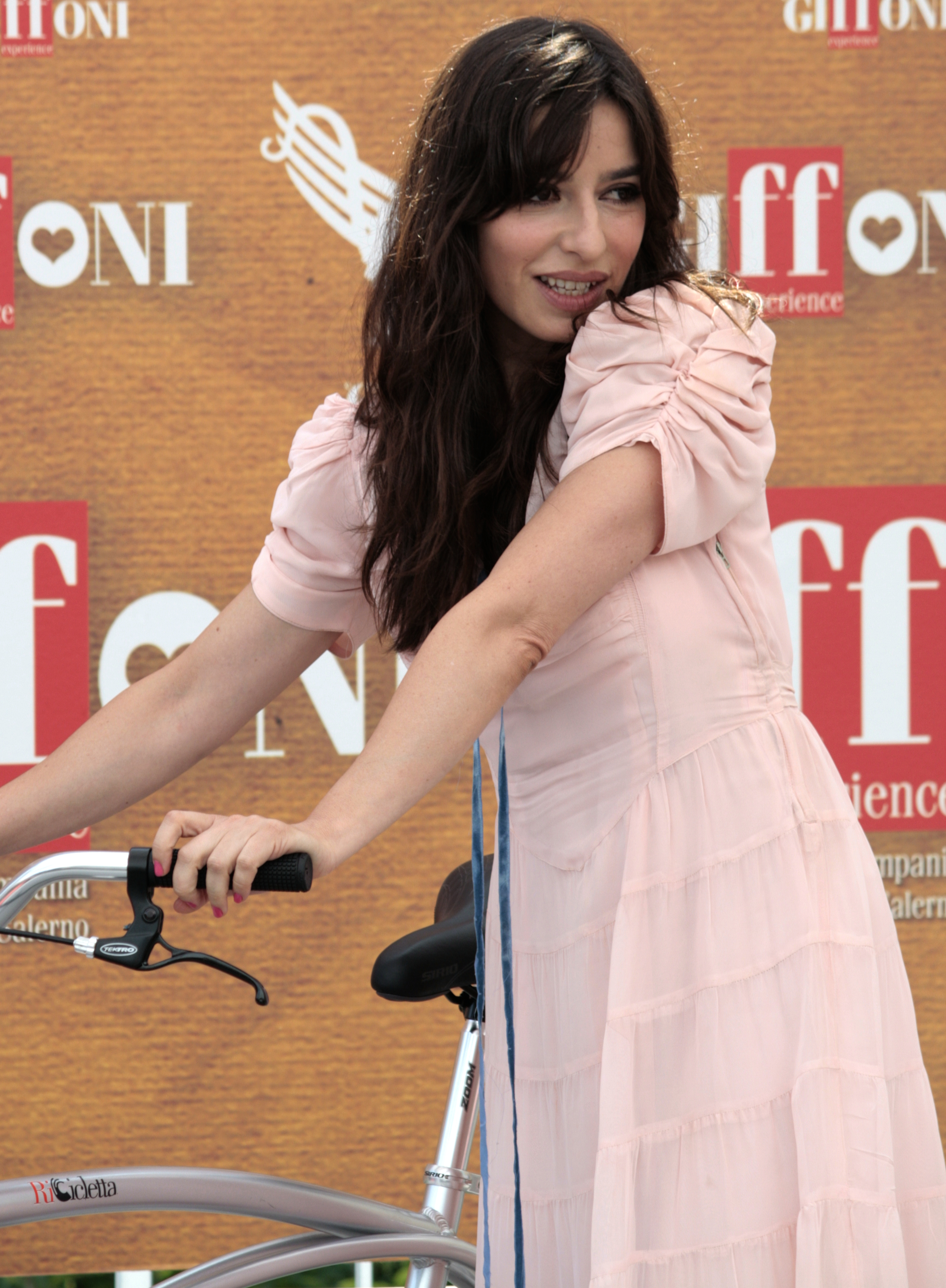 Italian actress Sabrina Impacciatore